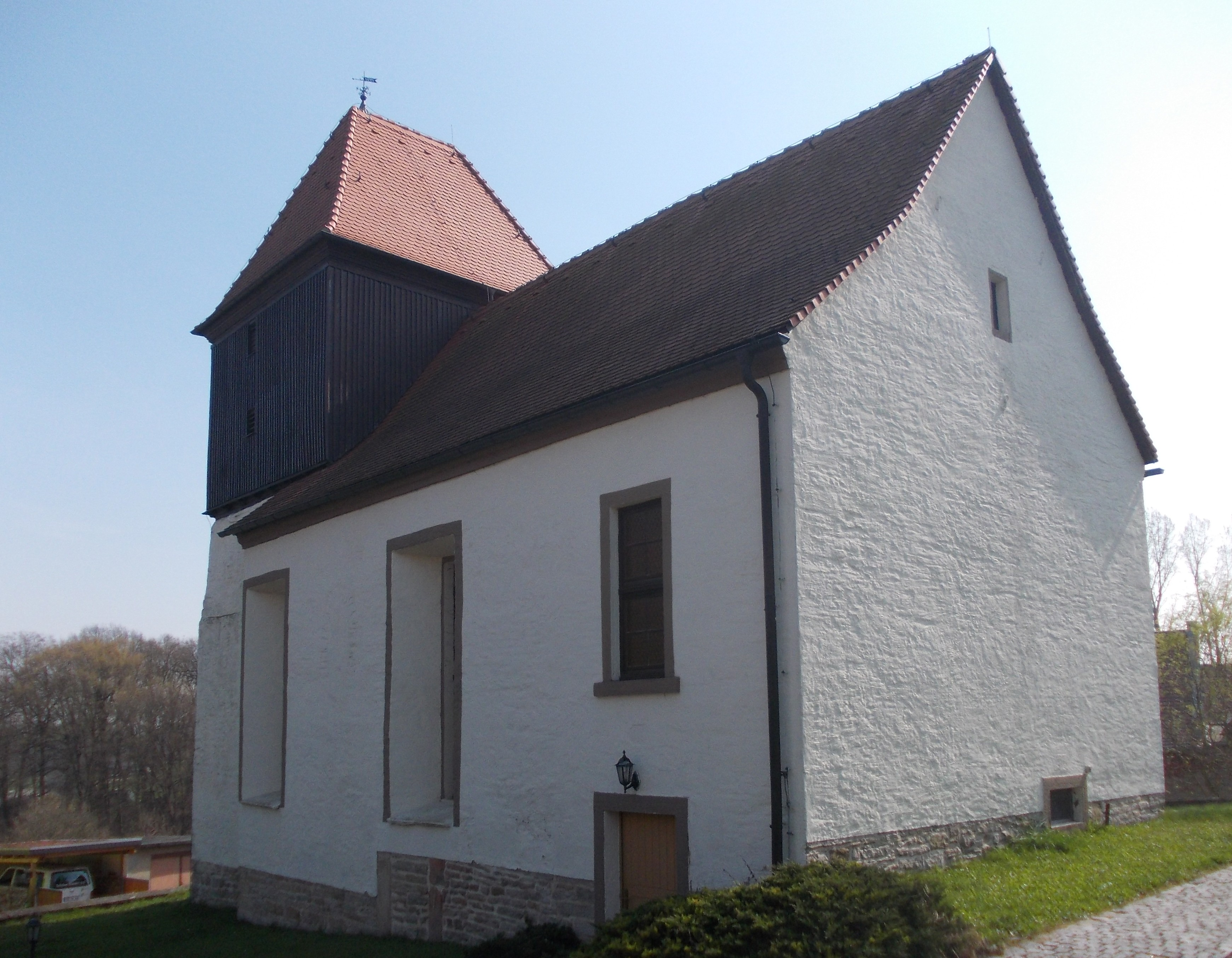 Kirchsteitz church (Kretzschau, district: Burgenlandkreis, Saxony-Anhalt)